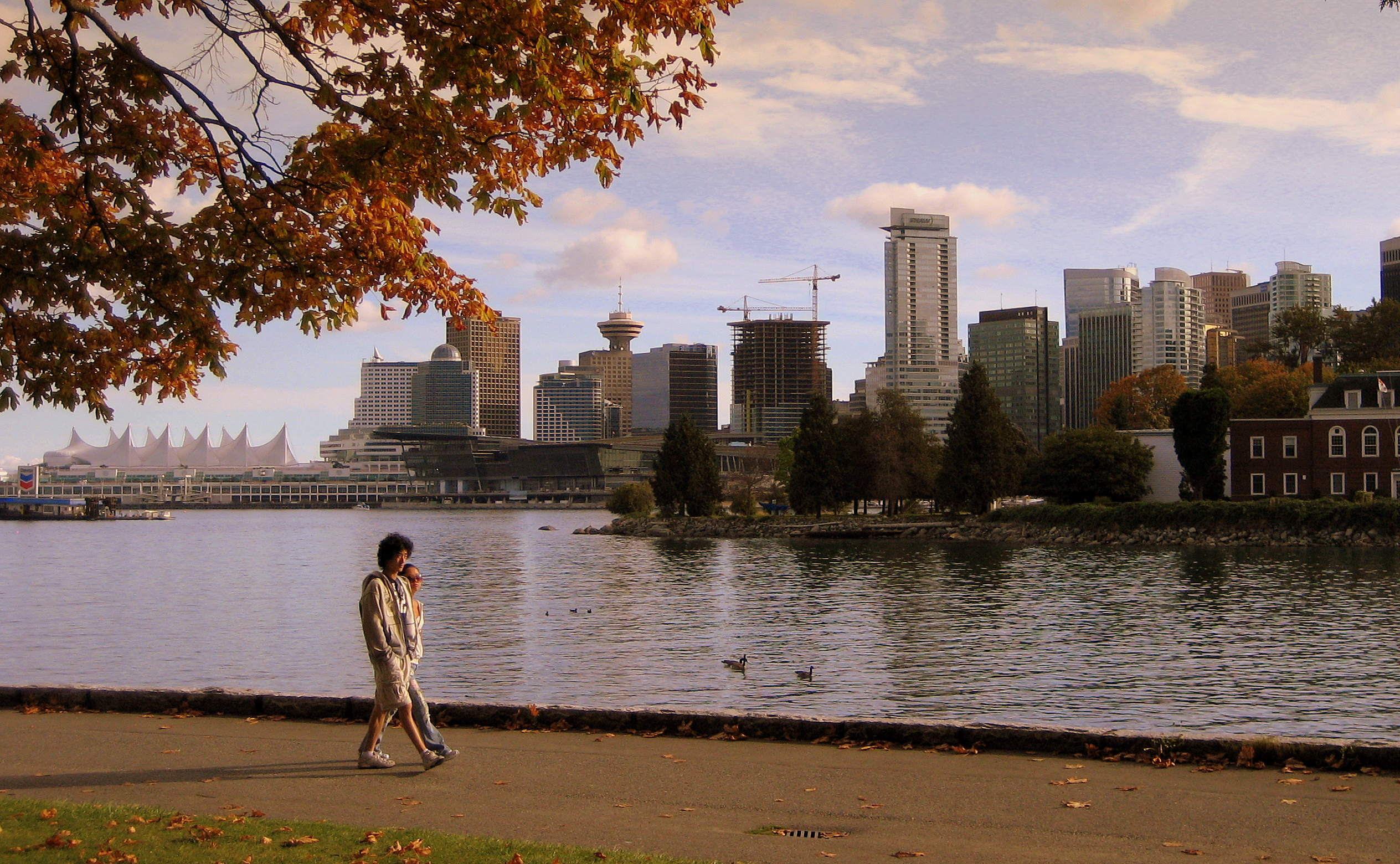 Stanley Park Promenade, Vancouver, Canada